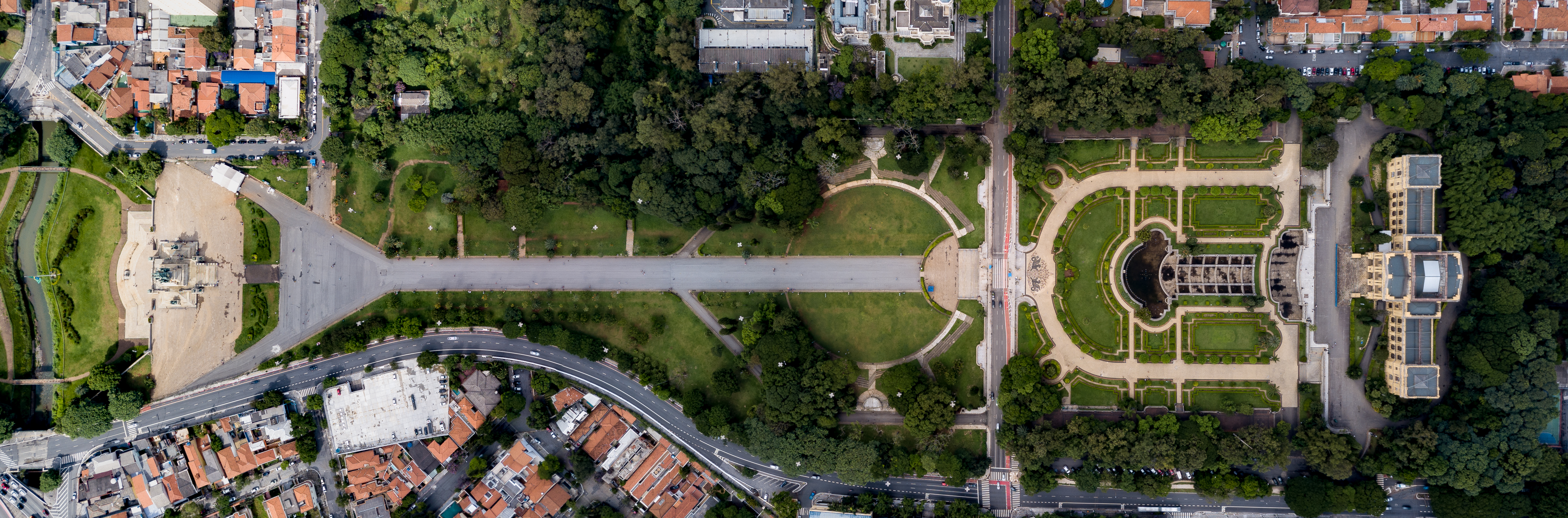 Independence Park